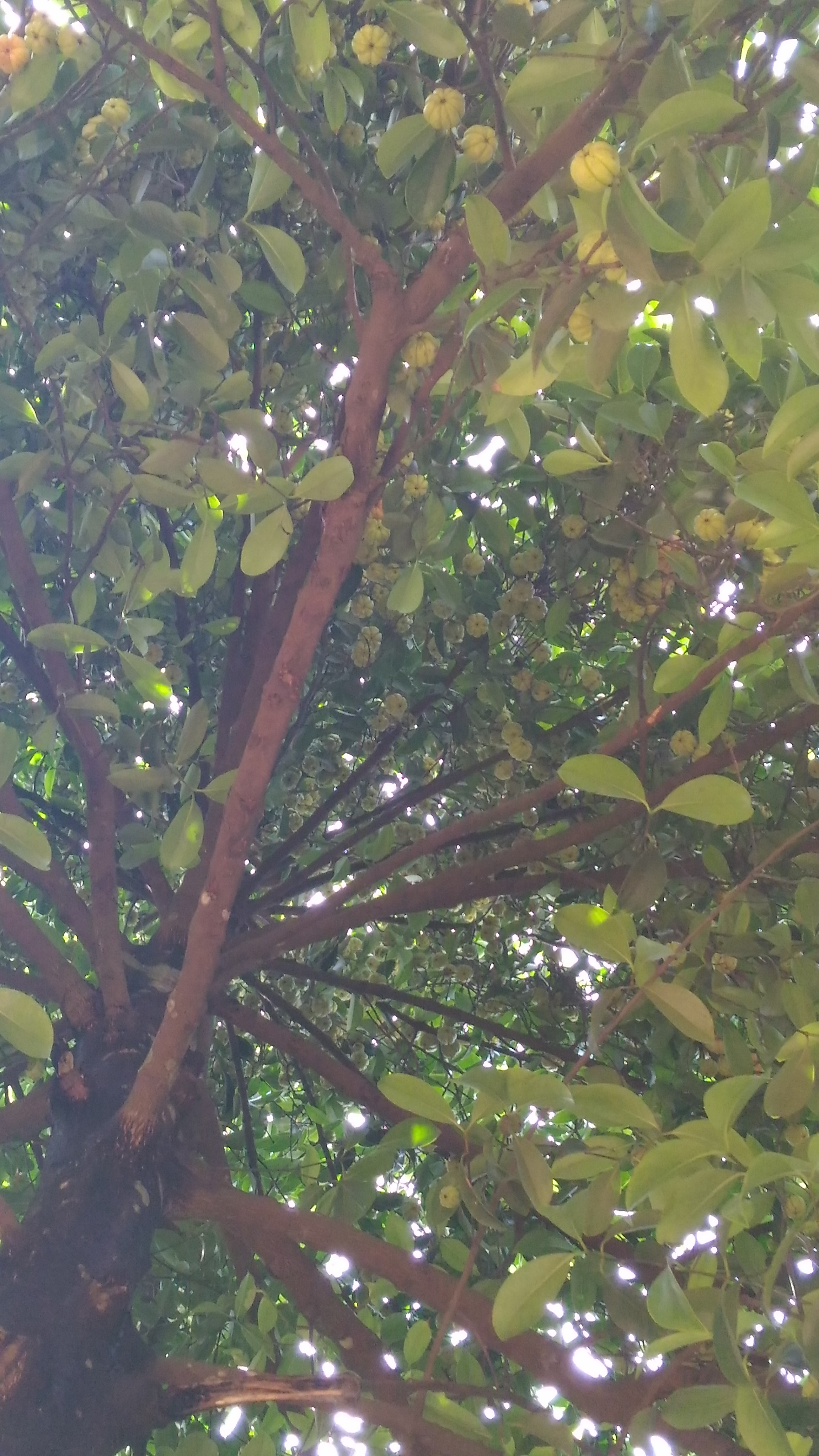 Common names include Brindleberry, Malabar tamarind and kudam puli (pot tamarind). The fruits look like a small pumpkin and is green to pale yellow in colour.